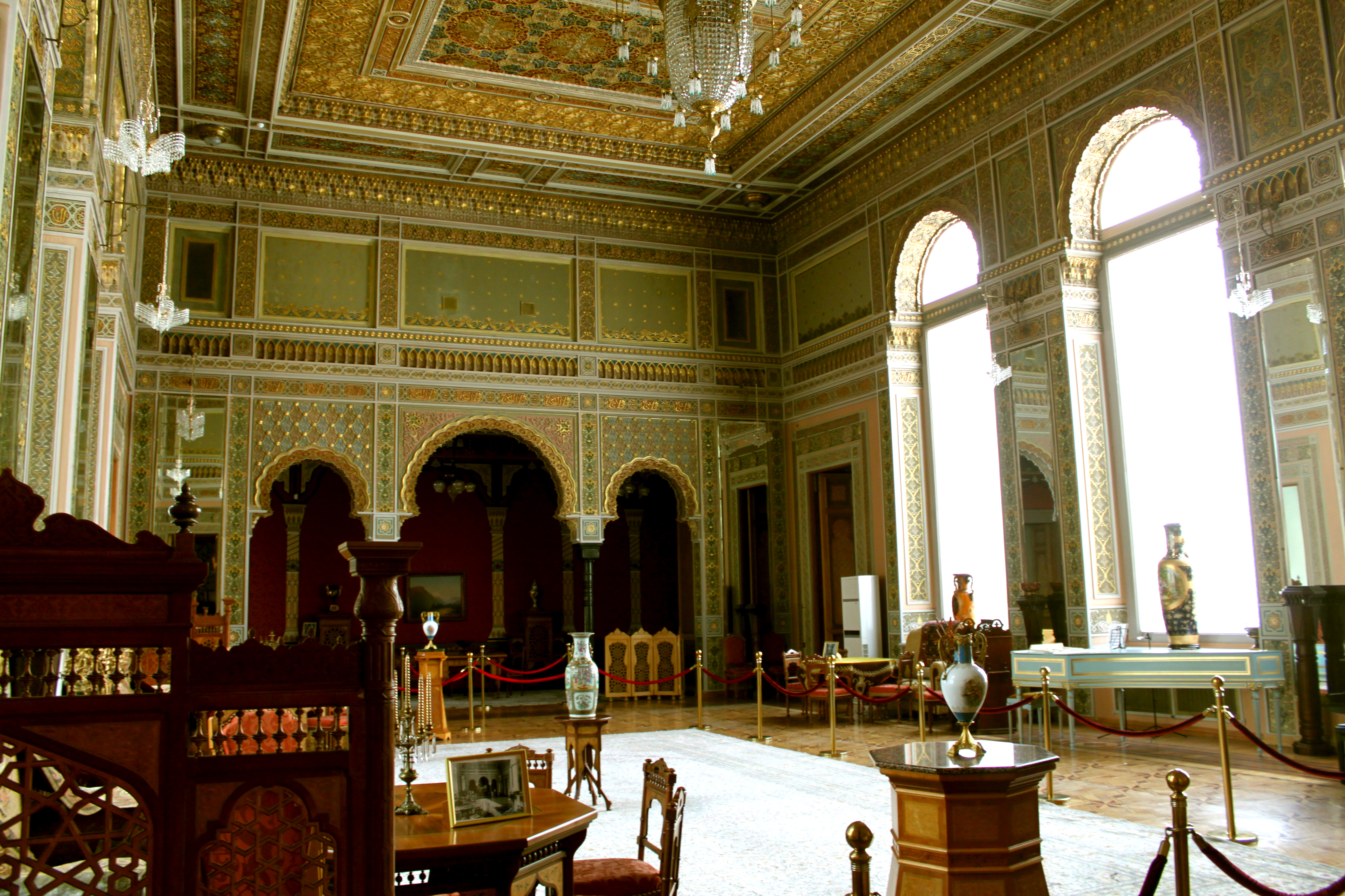 Palace of Haji Zeynalabdin Tagiyev